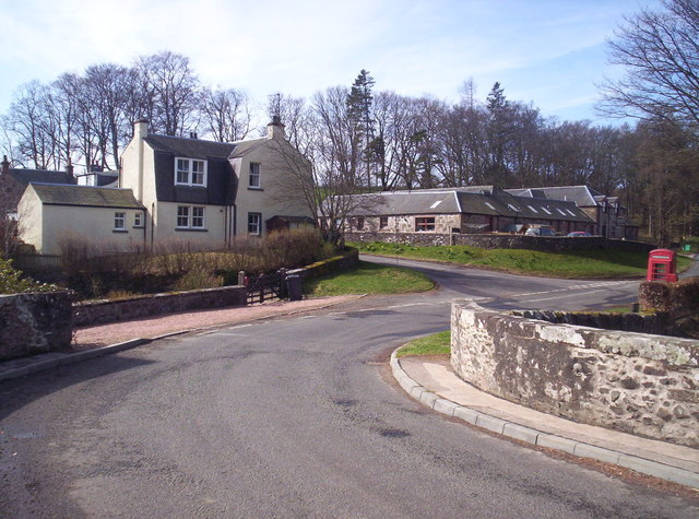 Bridgend of Lintrathen from the Bridge